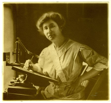 Bertha Jaques in her studio in 1912, photograph taken by E.D. Waters